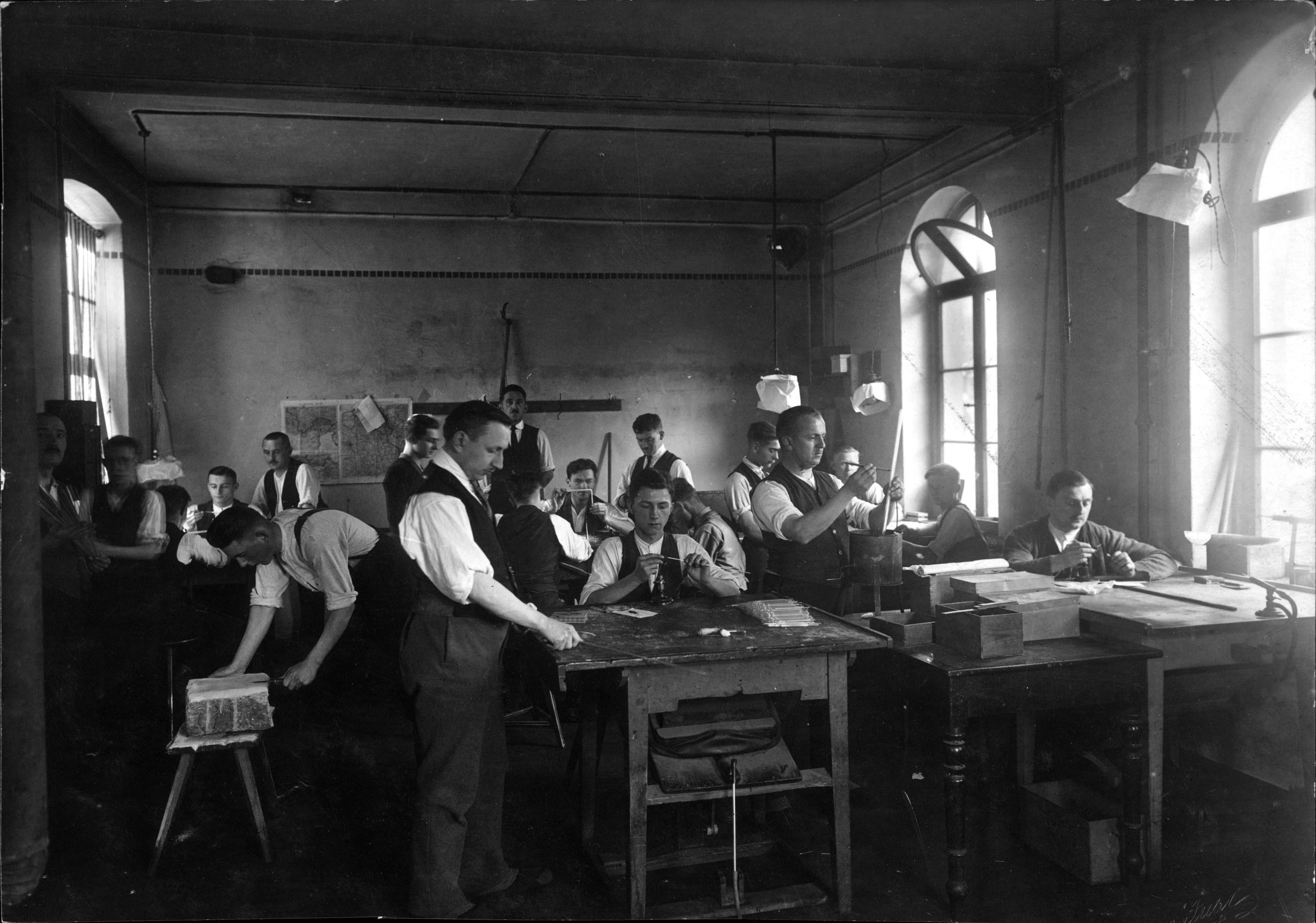 UEBE Zerbst. Wilhelm Uebe Spezialfabrik medizinischer Thermometer in Zerbst.